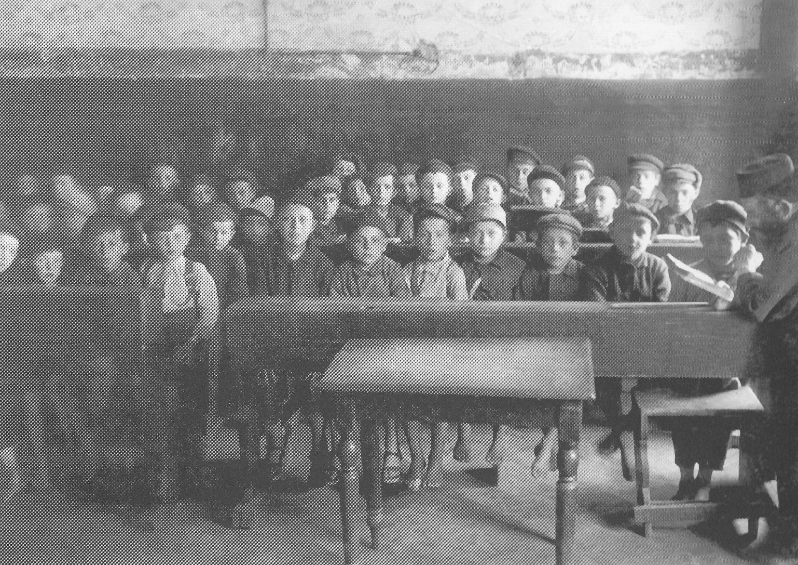 Cheder (Poland, place unknown)